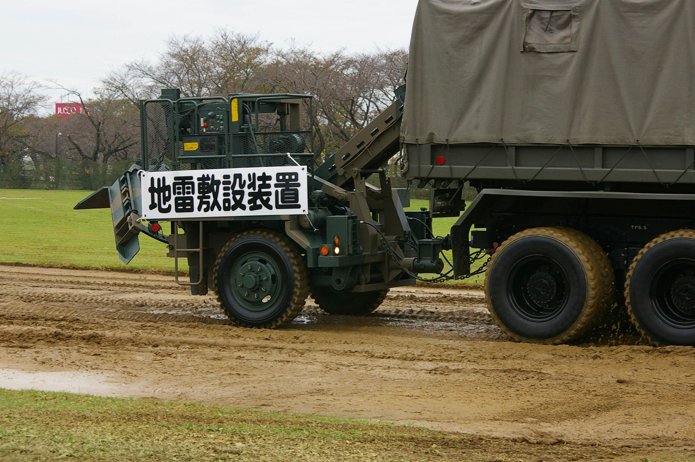 JGSDF Type83_Minelayer.Taken by Los688,at Camp Katsuta,25-Oct-2008.PD-self